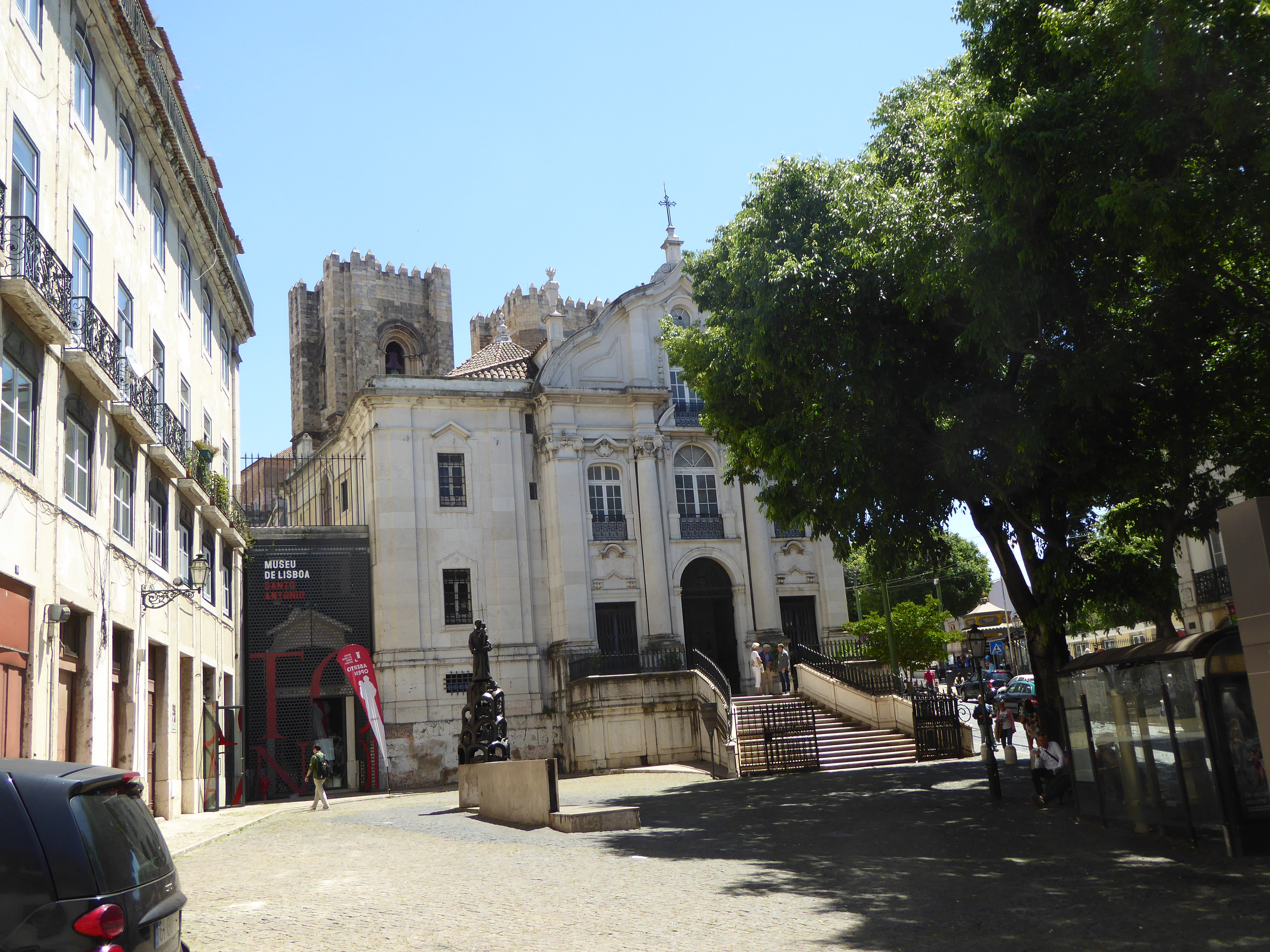 Largo de Santo António da Sé, Lisbon, Portugal, May 2017